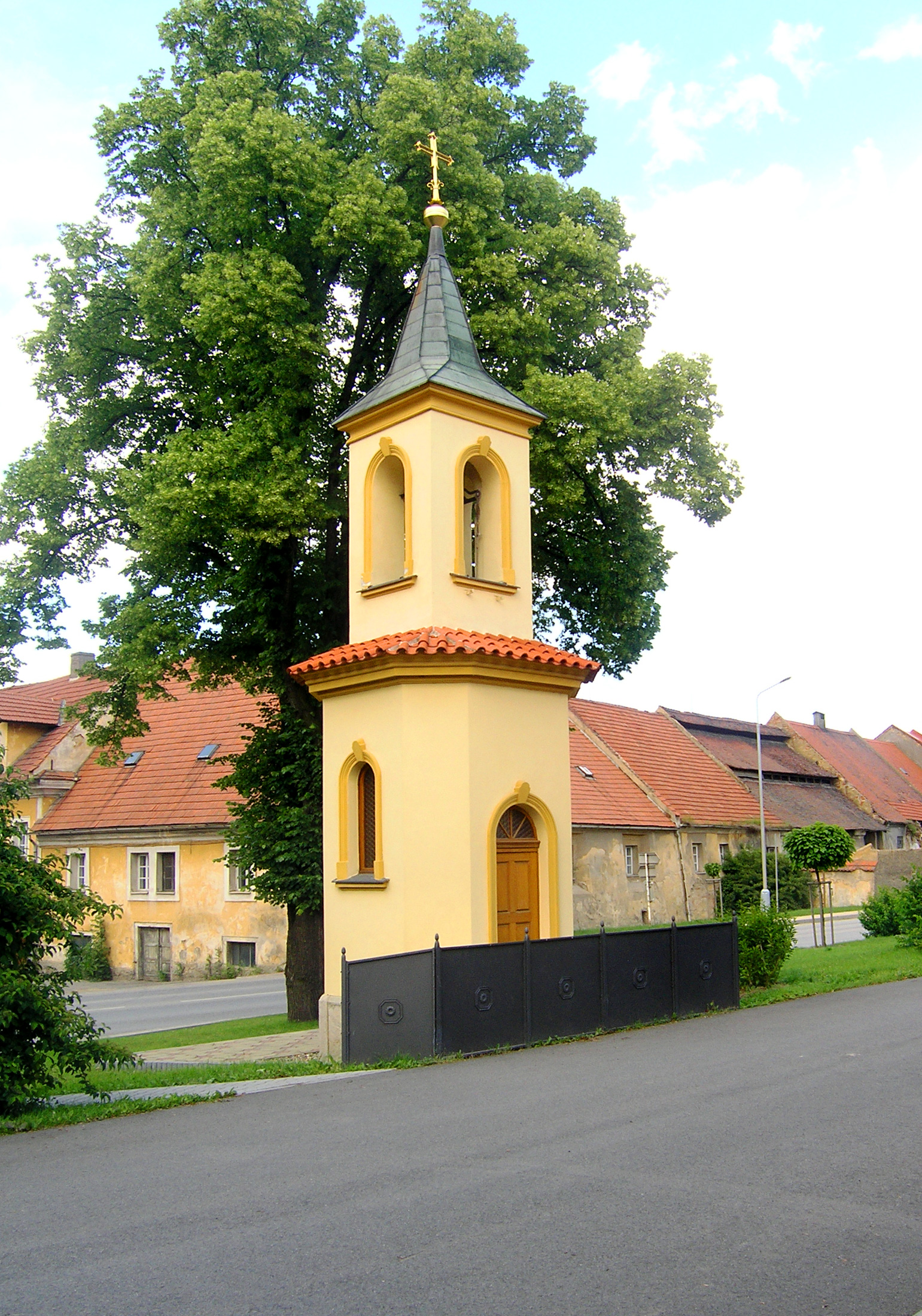 Bell tower at Malé square in Jeneč village, Prague-West District, the Czech Republic